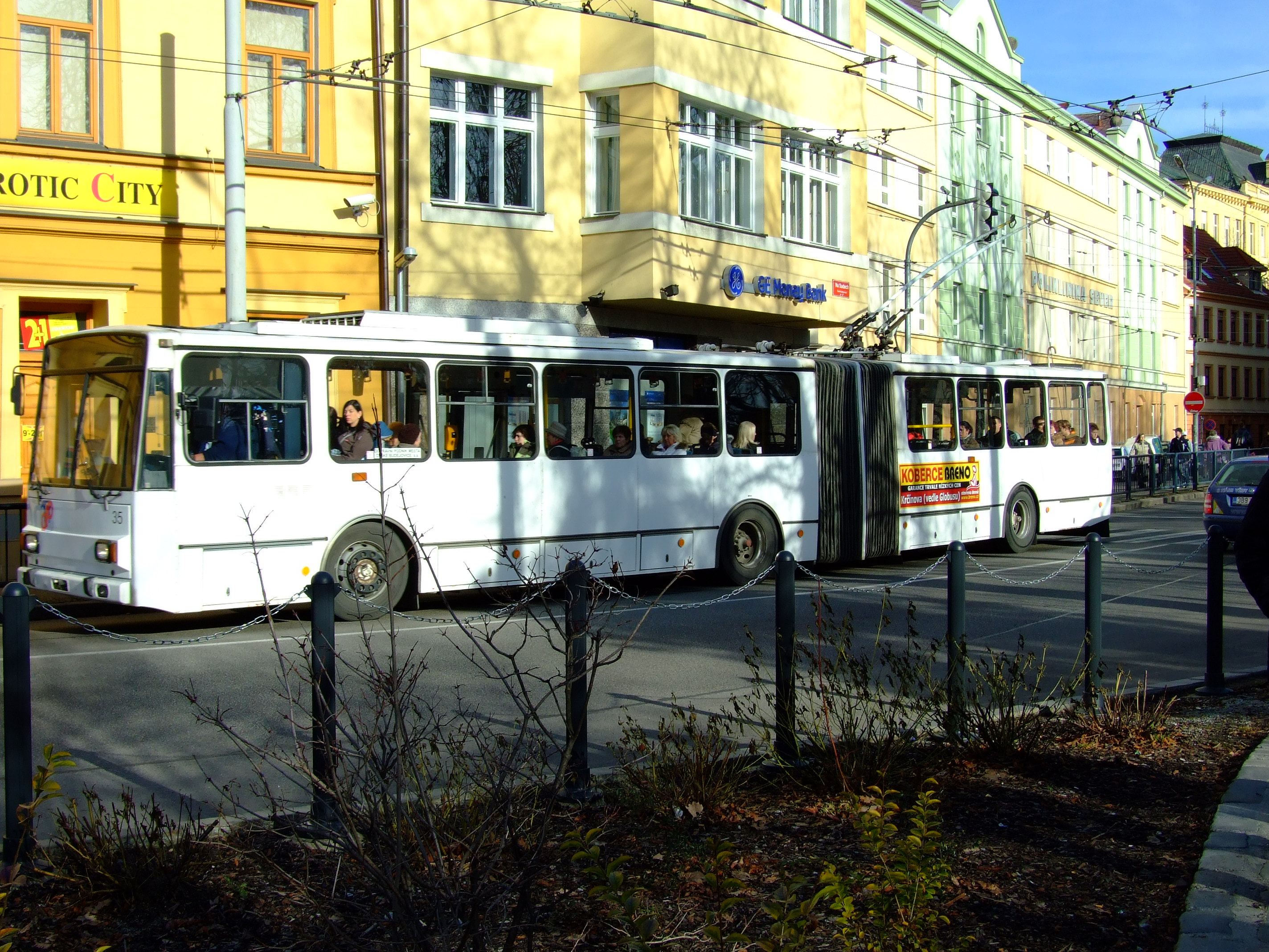 Public transport in České Budějovice, South Bohemian region, CZ. Trolleybus Škoda 15TrR in Na Sadech street, near city centerhelp